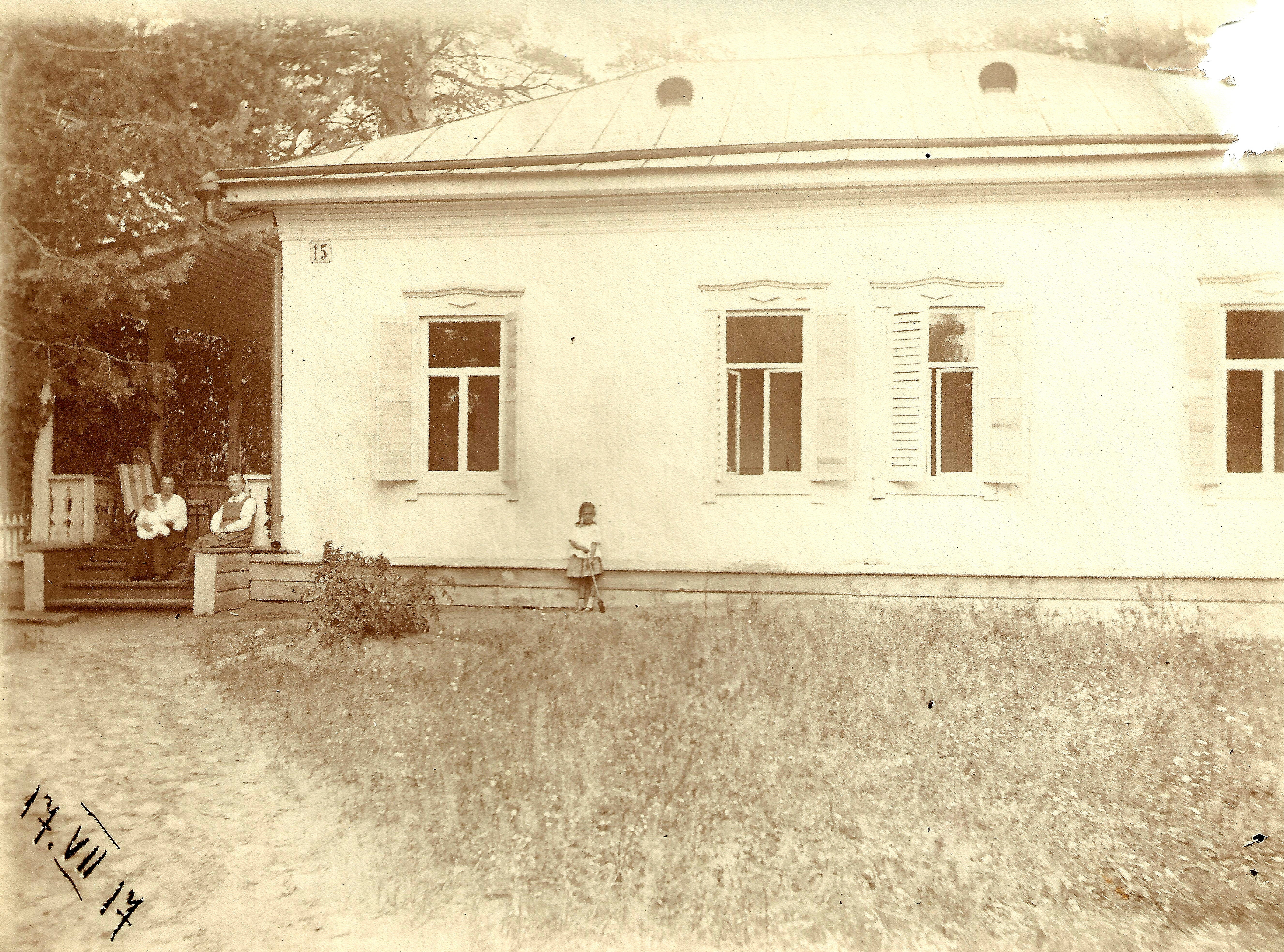 Worrying summertime in 1917 in a dacha near Moscow.